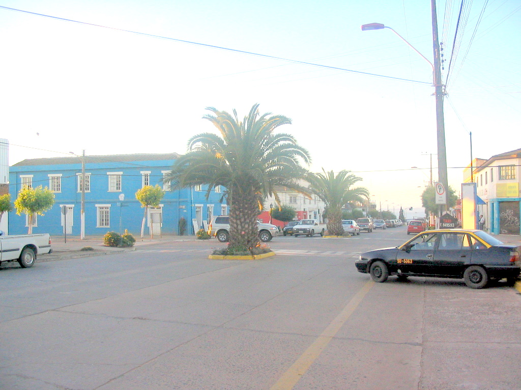 Partial view of the Ortúzar avenue in Pichilemu, Chile.